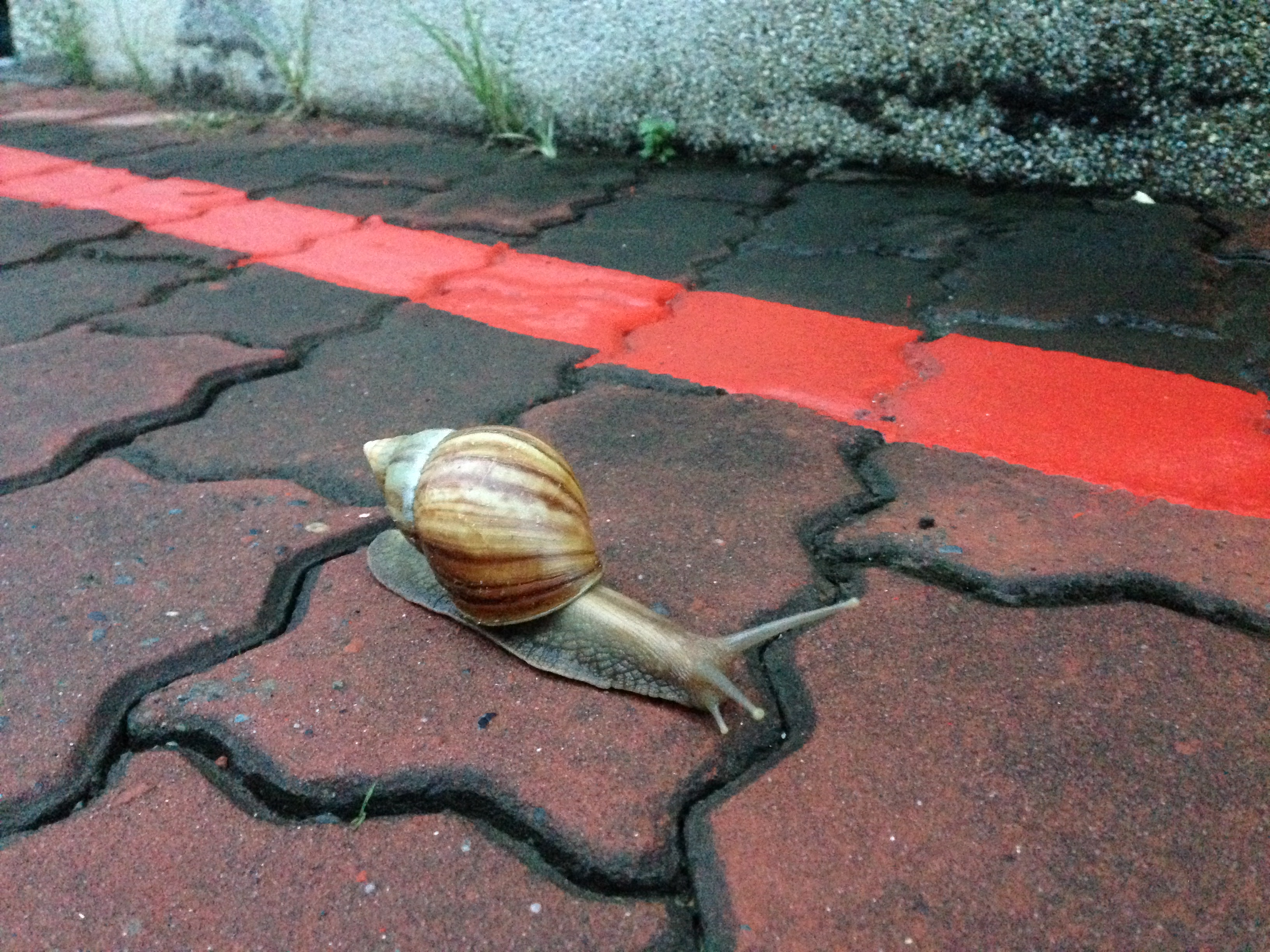 Achatina fulica